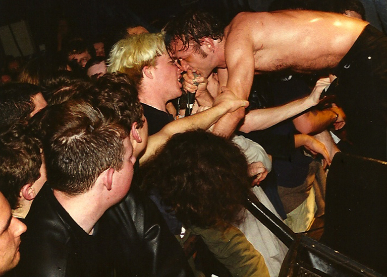 live at the garage, London sometime in 1998 or near by that time!